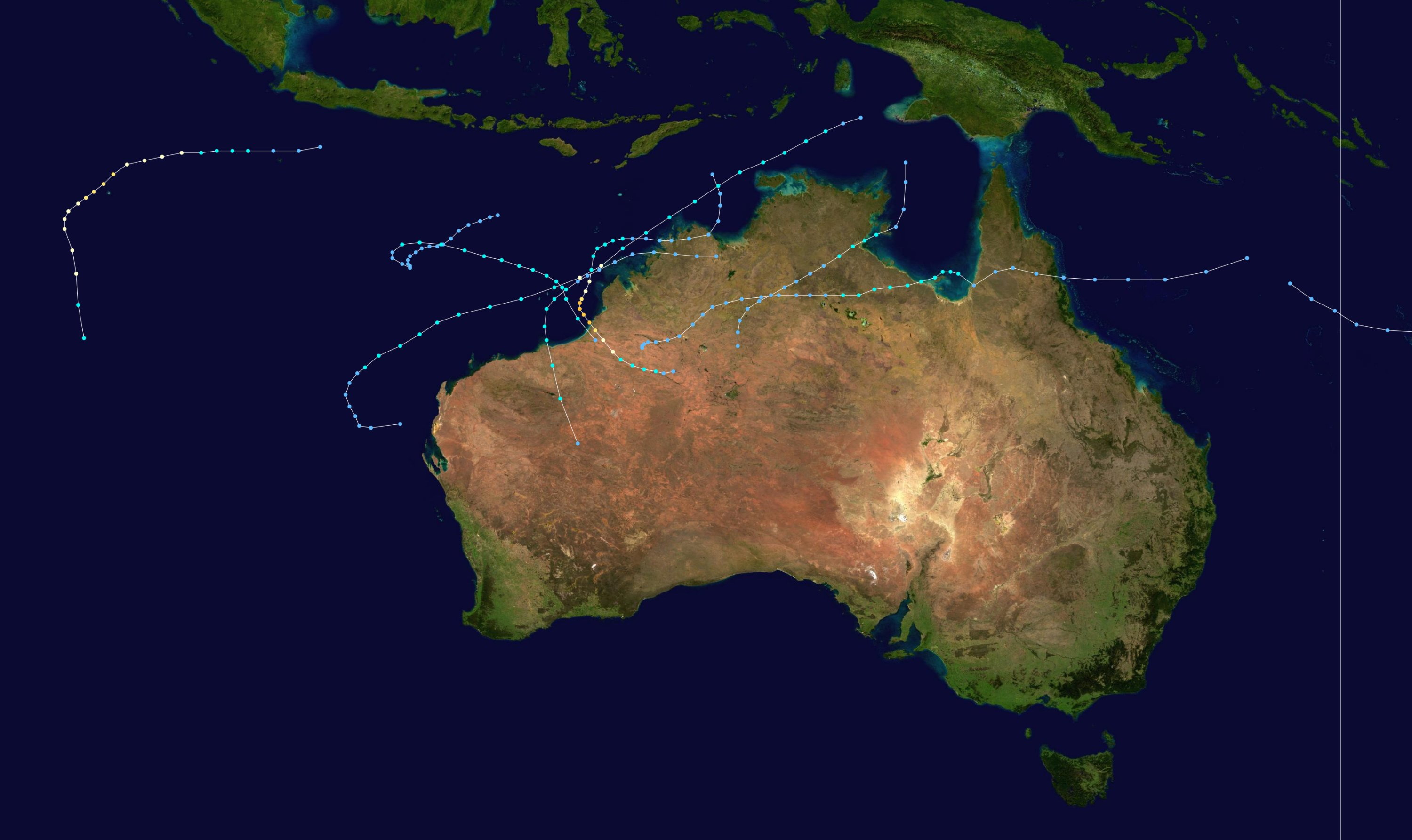 This map shows the tracks of all tropical cyclones in the 2000-01 Australian region cyclone season. The points show the location of each storm at 6-hour intervals. The colour represents the storm's maximum sustained wind speeds as classified in the Saffir-Simpson Hurricane Scale (see below), and the shape of the data points represent the type of the storm. Saffir–Simpson hurricane wind scale Tropical depression≤38 mph≤62 km/h Category 3111–129 mph178–208 km/h Tropical storm39–73 mph63–118 km/h Category 4130–156 mph209–251 km/h Category 174–95 mph119–153 km/h Category 5≥157 mph≥252 km/h Category 296–110 mph154–177 km/h Unknown Storm typeTropical cycloneSubtropical cycloneExtratropical cyclone / Remnant low / Tropical disturbance